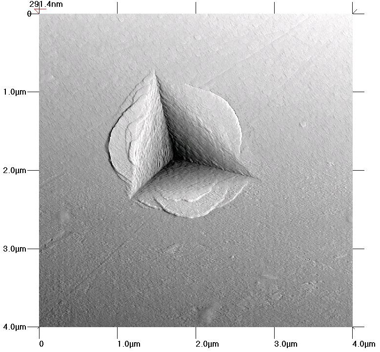 An AFM image of the residual indent left by a Berkovitch tip during a nanoindentation experiment on a Zr-Cu-Al metallic glass. Image by Jonathan Puthoff, University of Wisconsin - Madison.